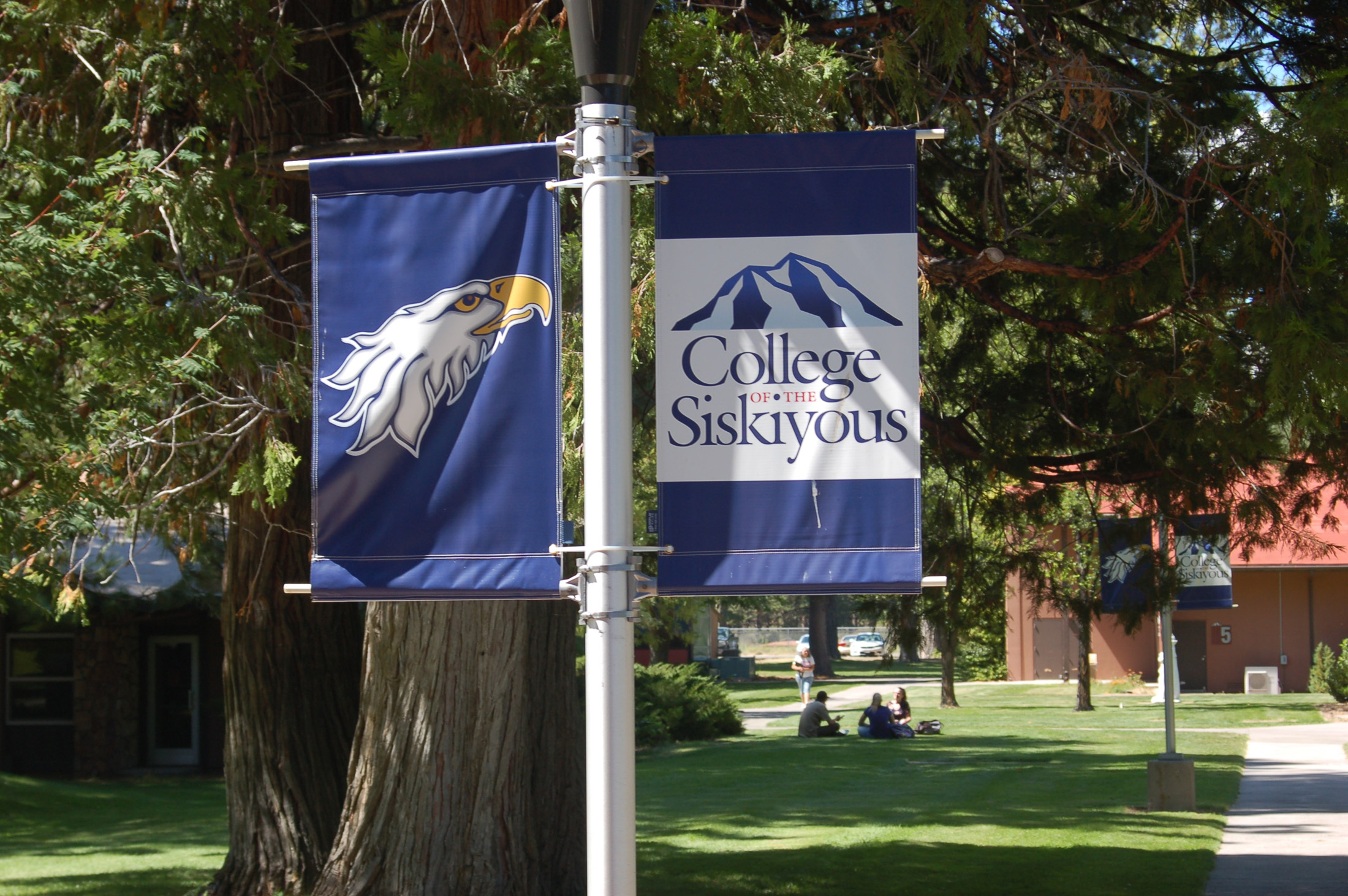 College of the Siskiyous, Weed, California College of the Siskiyous athletic mascot is the Eagle. COS offers intercollegiate athletic competition in a number of sports. Women's collegiate sports include: basketball, softball, cross country, track, soccer, and volleyball. Men's collegiate sports include: baseball, basketball, cross country, soccer, track, and football.